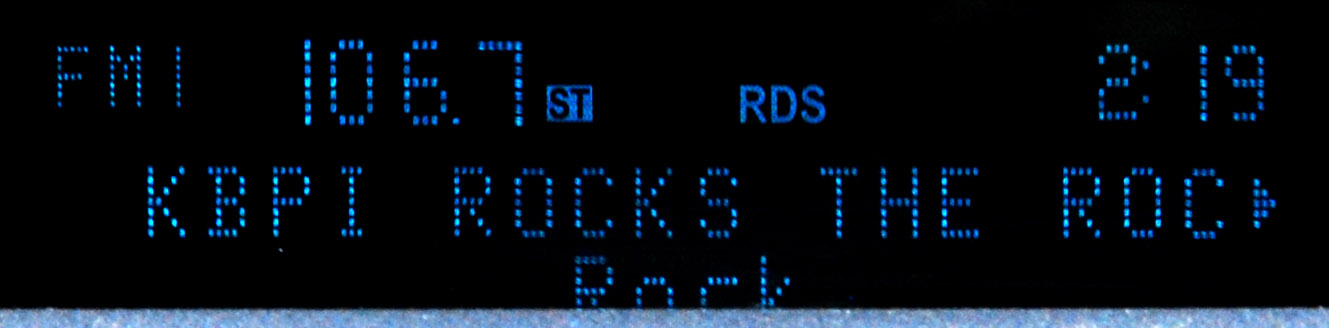 Display of a car radio near Denver while listening to KBPI, displaying the frequency, the RDS radiotext (RT) which consists of the station's motto ("KBPI Rocks the Rockies"), and the RDS program type (PTY).